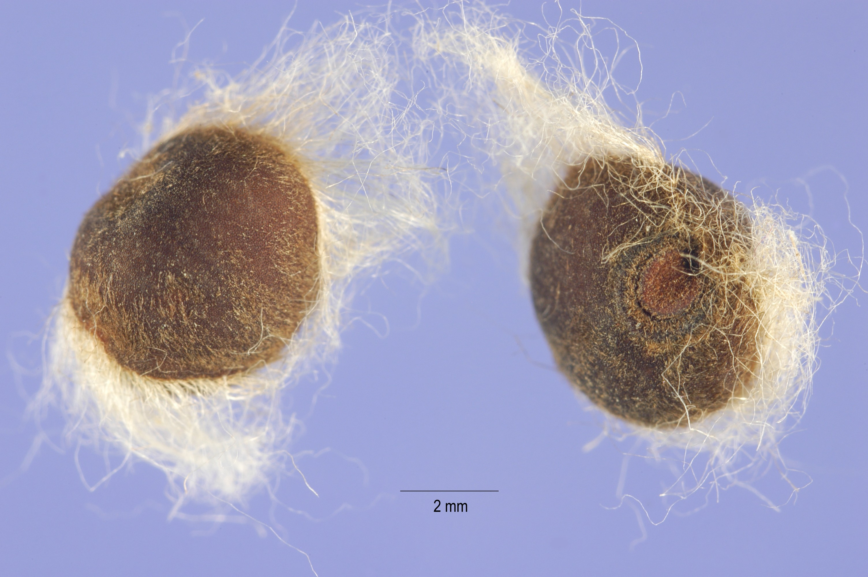 Ipomoea cairica seeds. Provided by ARS Systematic Botany and Mycology Laboratory. India.